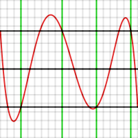 (from This image was made as a .bmp file by a program modified from the one provided by User:Cyp, and then converted to .png format with the Gimp 2.2.10 file converter.